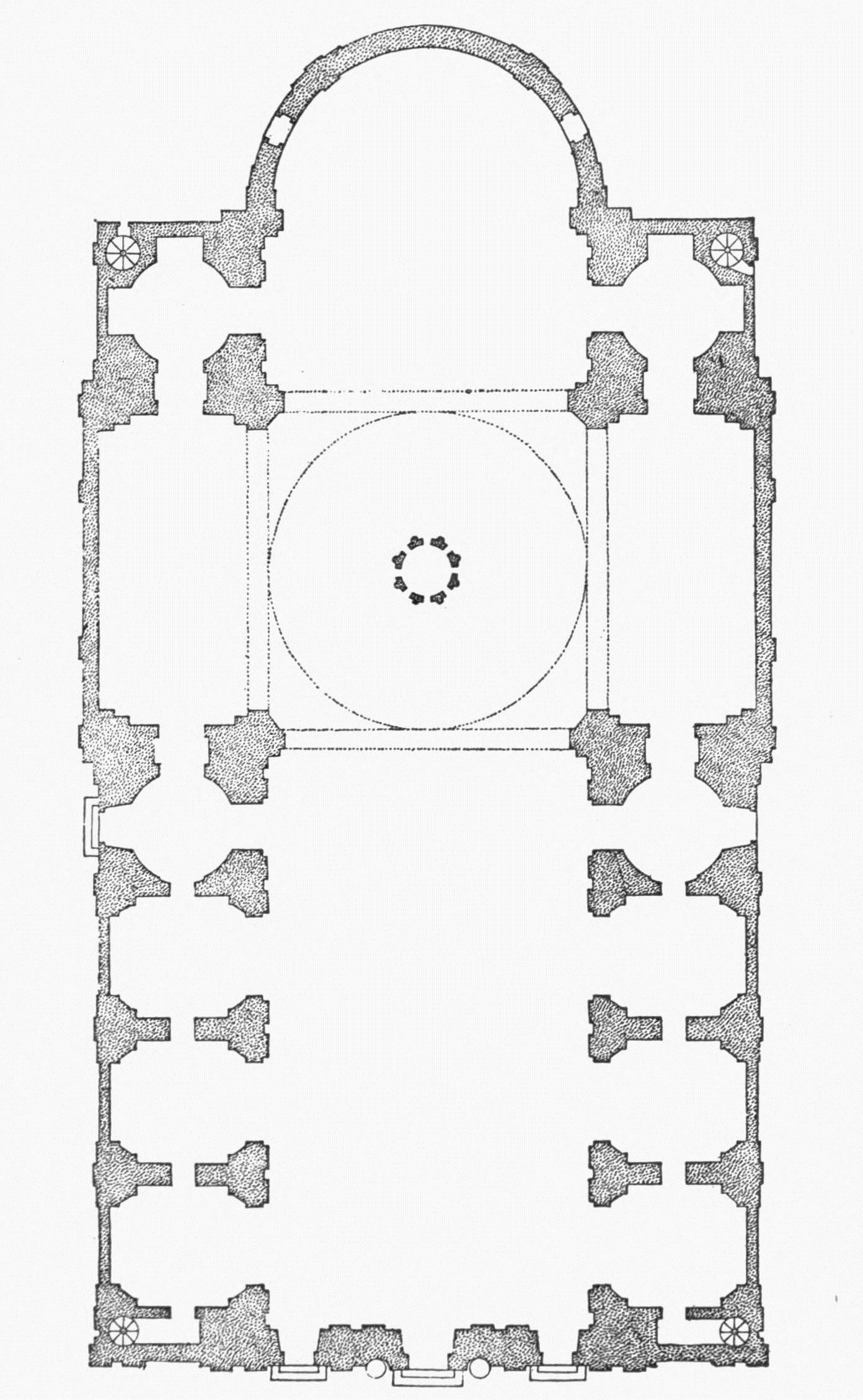 Scan from book 'Character of Renaissance Architecture'